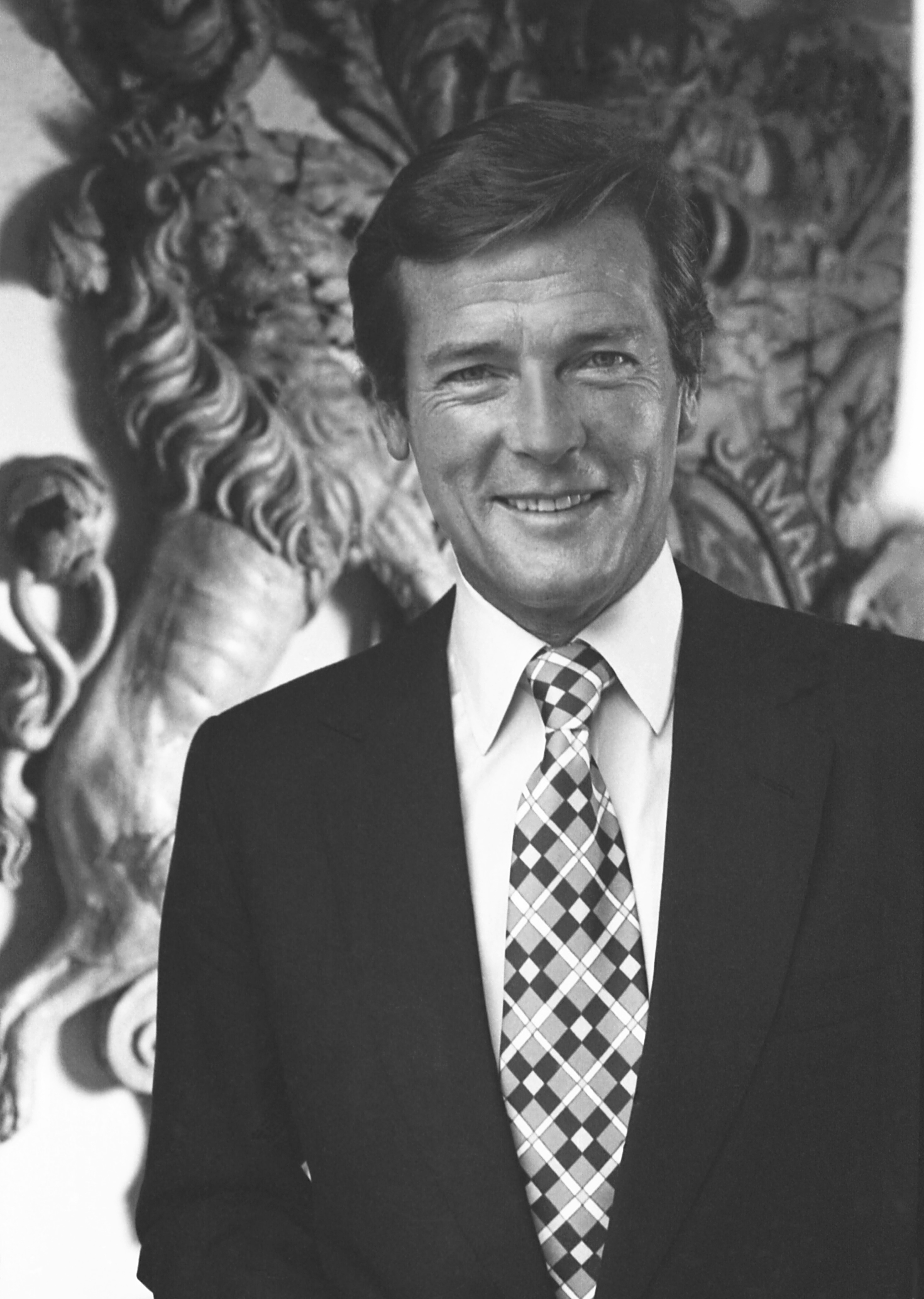 Sir Roger Moore taken at photographer's studio Belgravia London